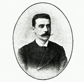 Greek writer of 19th century, Ilias Kapetanakis